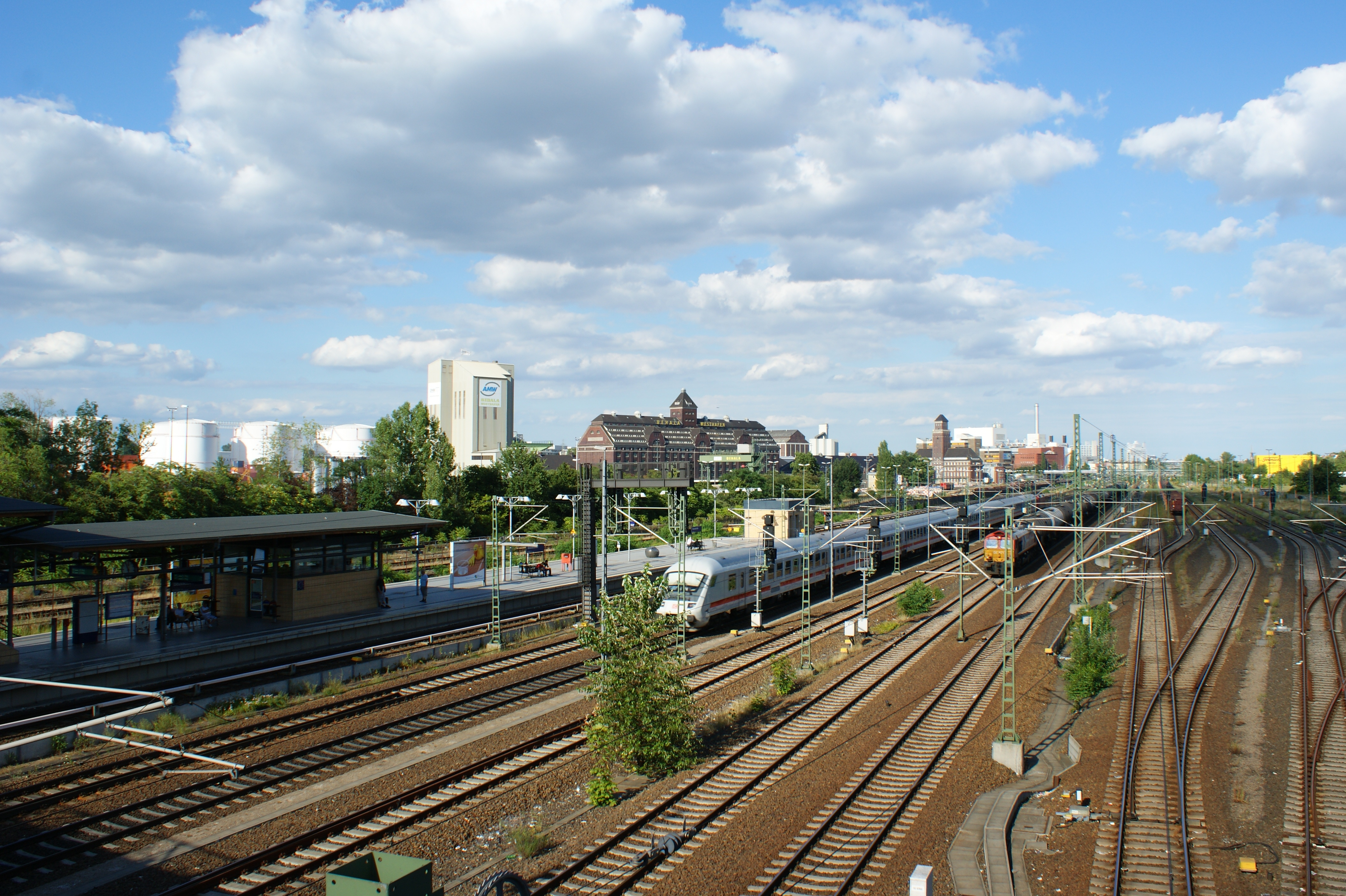 station Beusselstraße